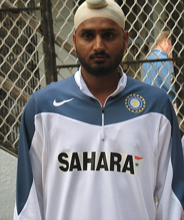 Harbhajan Singh - Ind Vs Eng,Mumbai, March 29,2006. Copyright I am the creator of the photograph. Camera manufacturer :: CANON, Camera model :: A610; Pixels :: 5 Megapixels; Zoom :: 4X